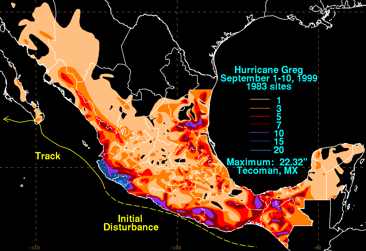 Rainfall produced by Hurricane Greg during September 1999.